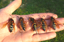 Photograph of 5 female eastern cicada kilers, Sphecius speciosus taken in St. Johns County, Florida